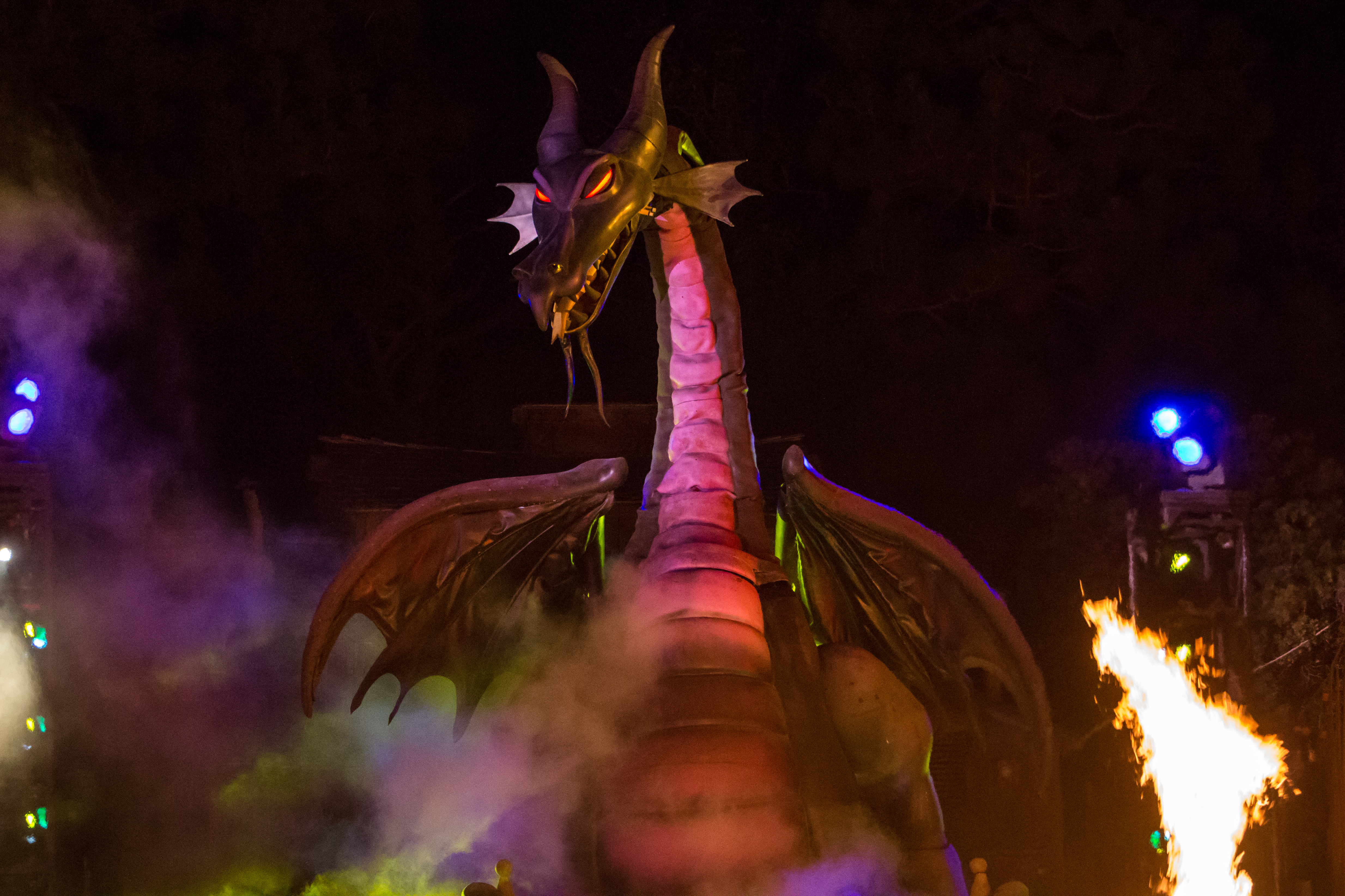 Part of Fantasmic as seen from the Rivers of America.